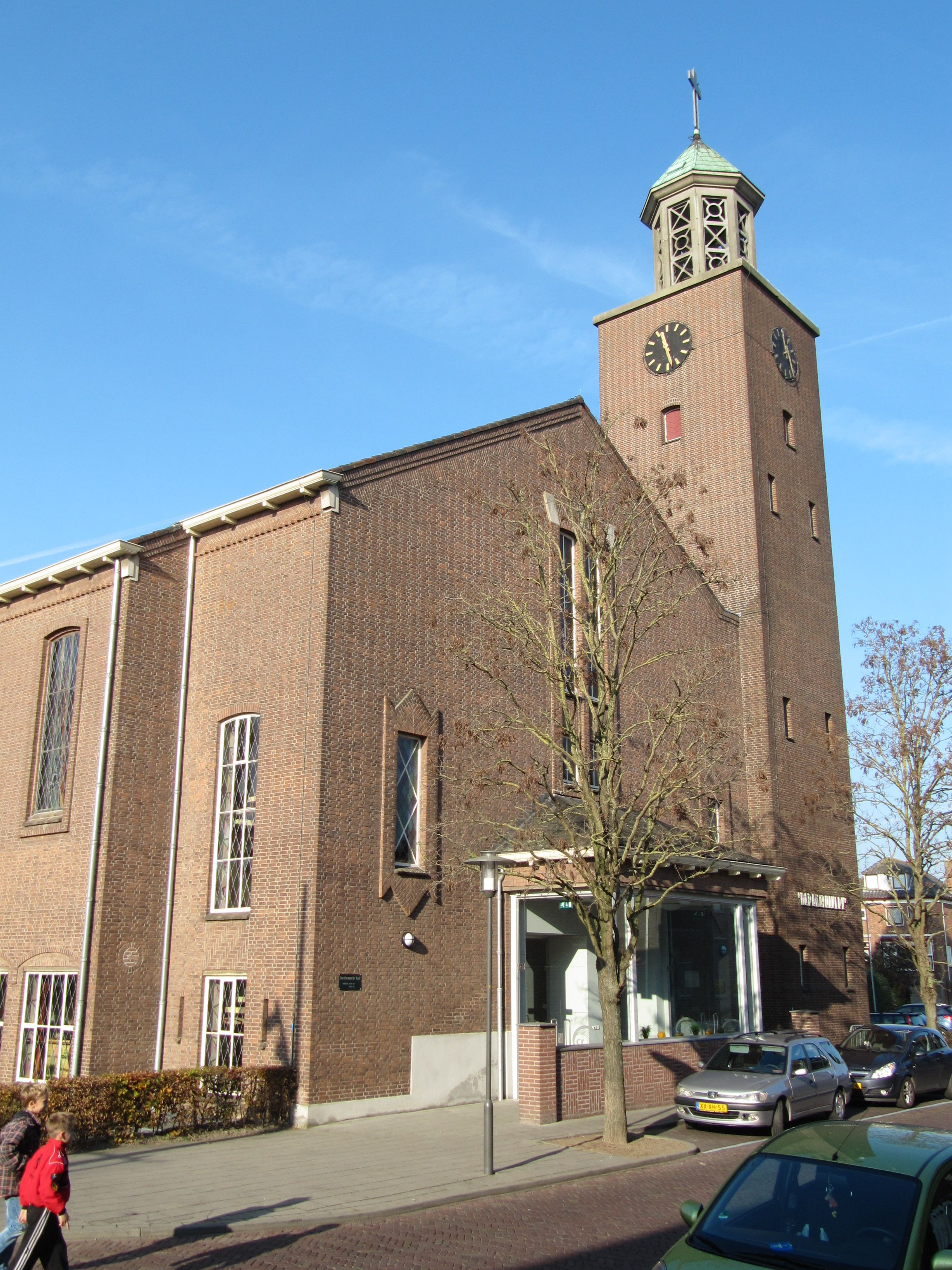 Maranathakerk aan de Merwestraat